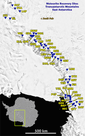 A map showing the locations of the meteorites recovered in Antarctica by ANSMET